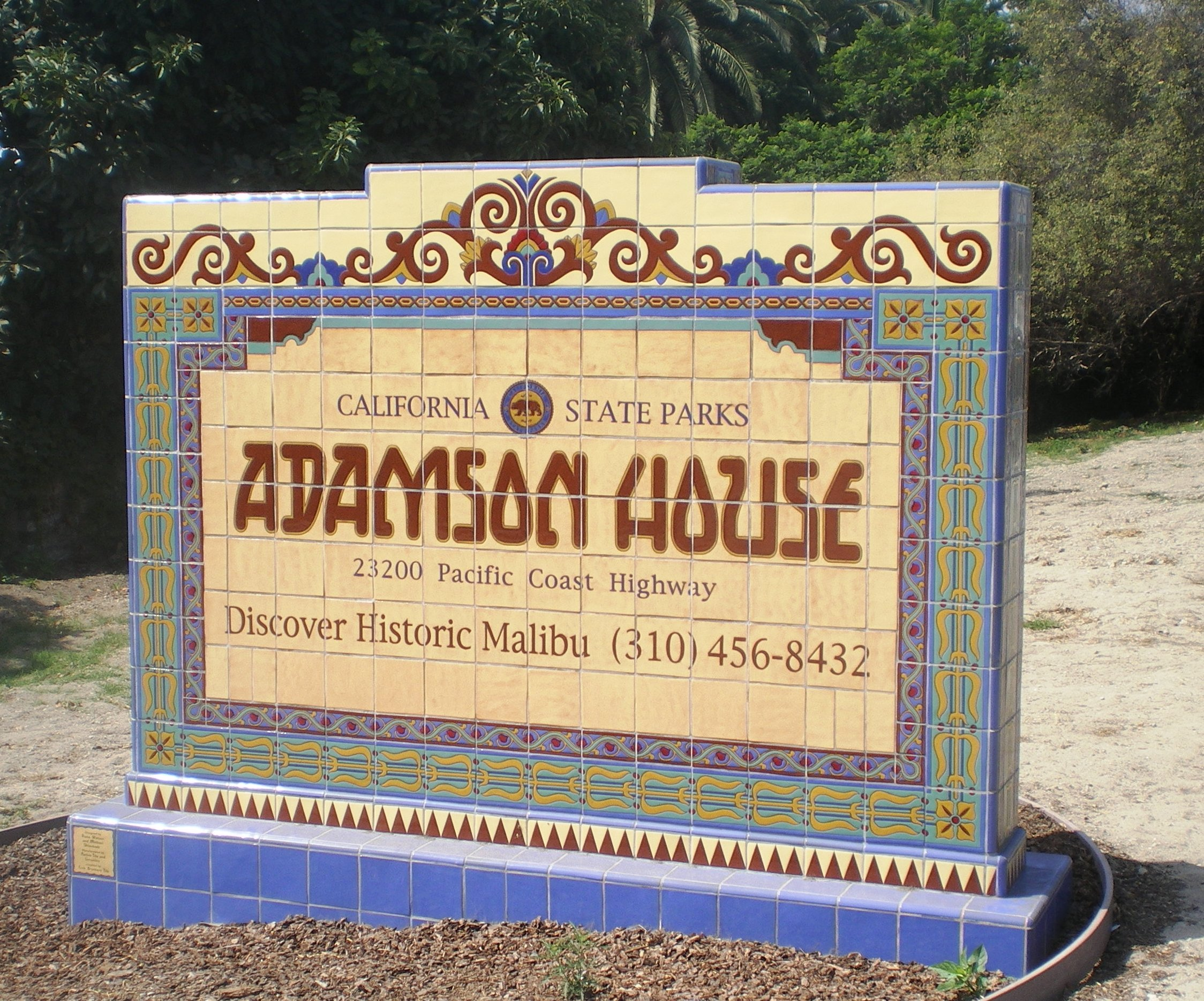 Entrance to Adamson House, Pacific Coast Highway, Malibu, California